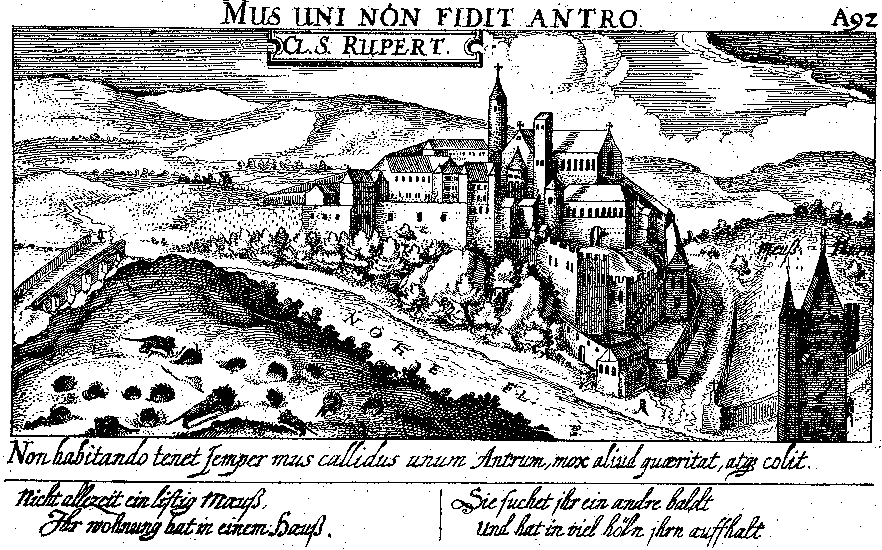 Monastery Rupertsberg, Germany